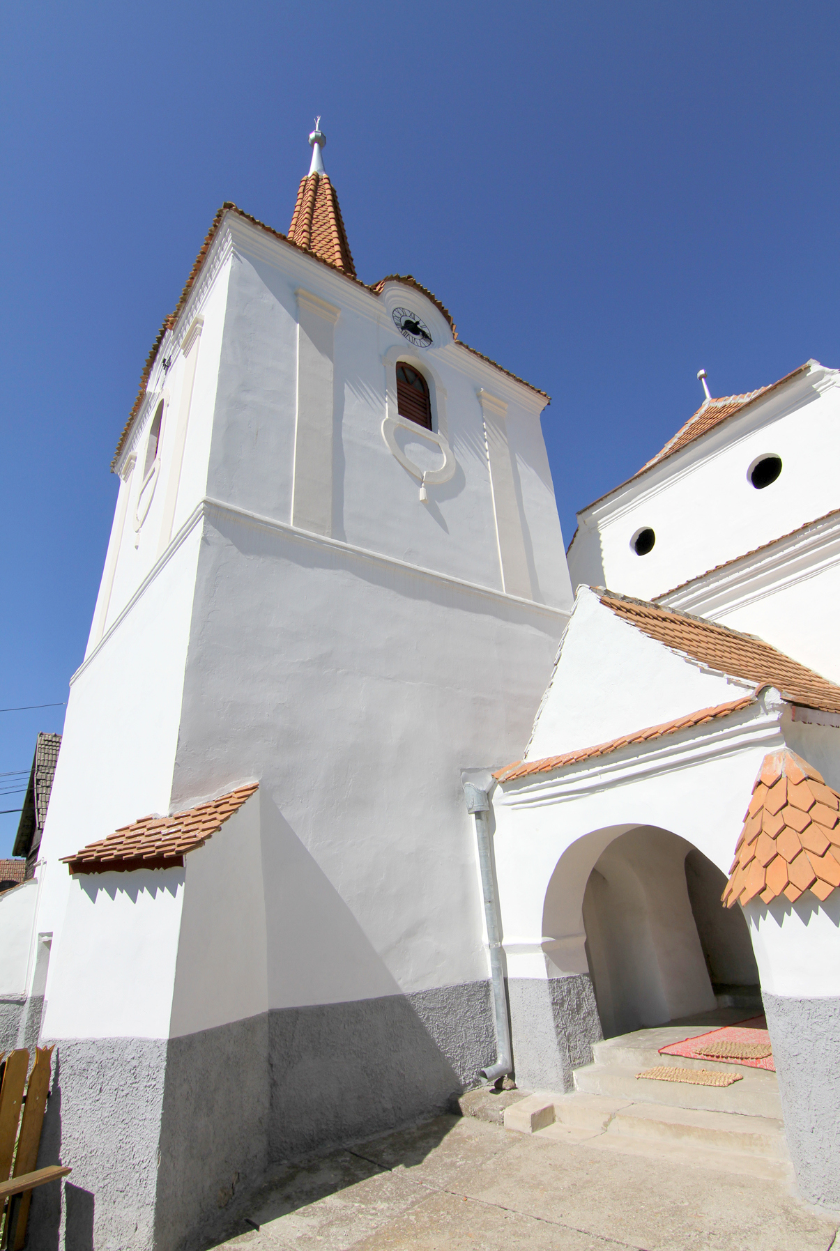 Reformed church in Hoghiz, Brașov county, Romania